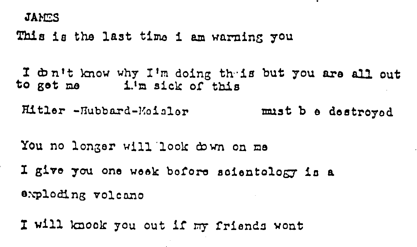 "Bomb threat" against the New York Church of Scientology, supposedly from Paulette Cooper but actually a forgery created by the Church's Guardian's Office. See Operation Freakout.